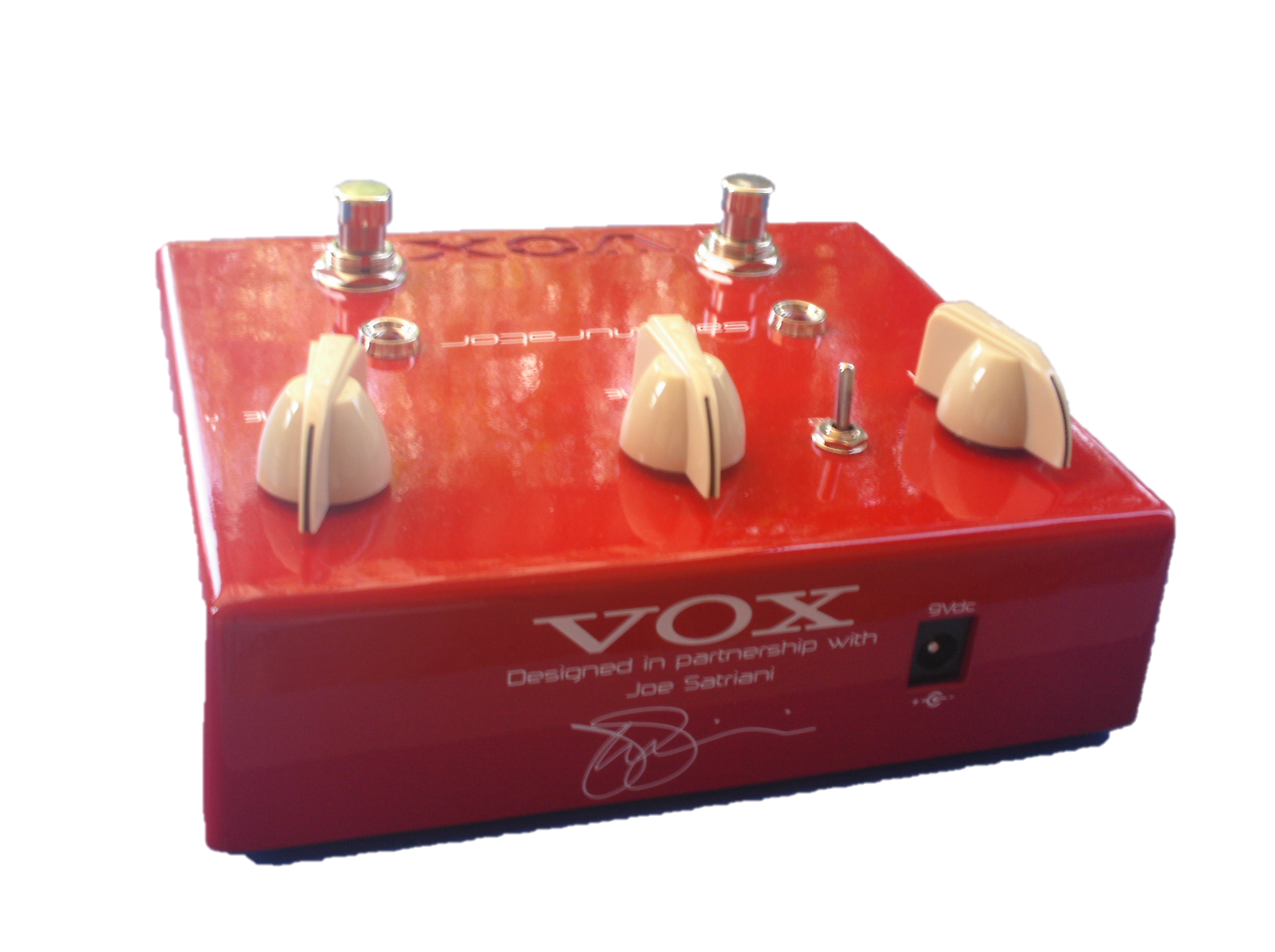 Vox Satchurator distortion pedal, designed in partnership with Joe Satriani. The pedal has a built-in gain boost ("more" switch).